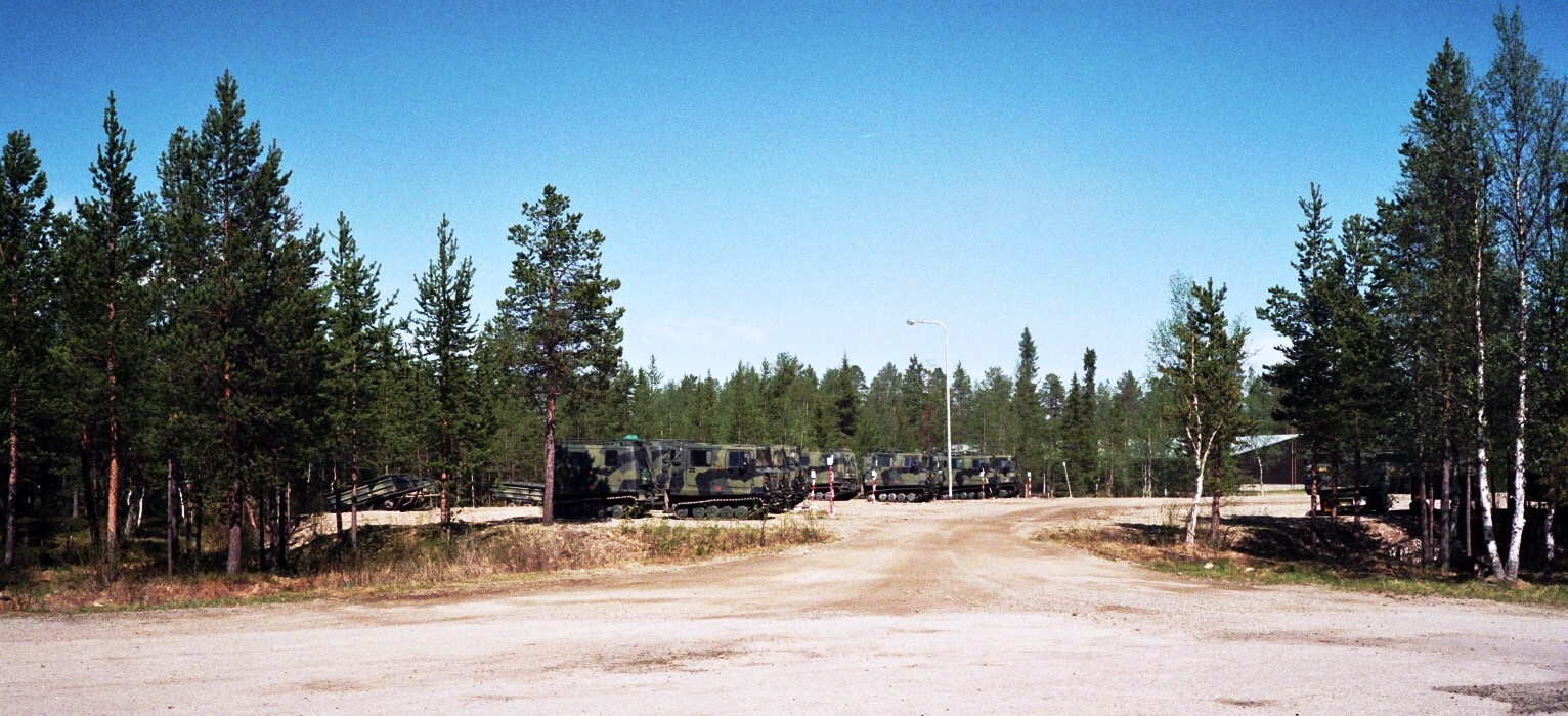 Hägglunds Bv 206 tracked military vehicles in Jaeger Brigade, Sodankylä, Finland.